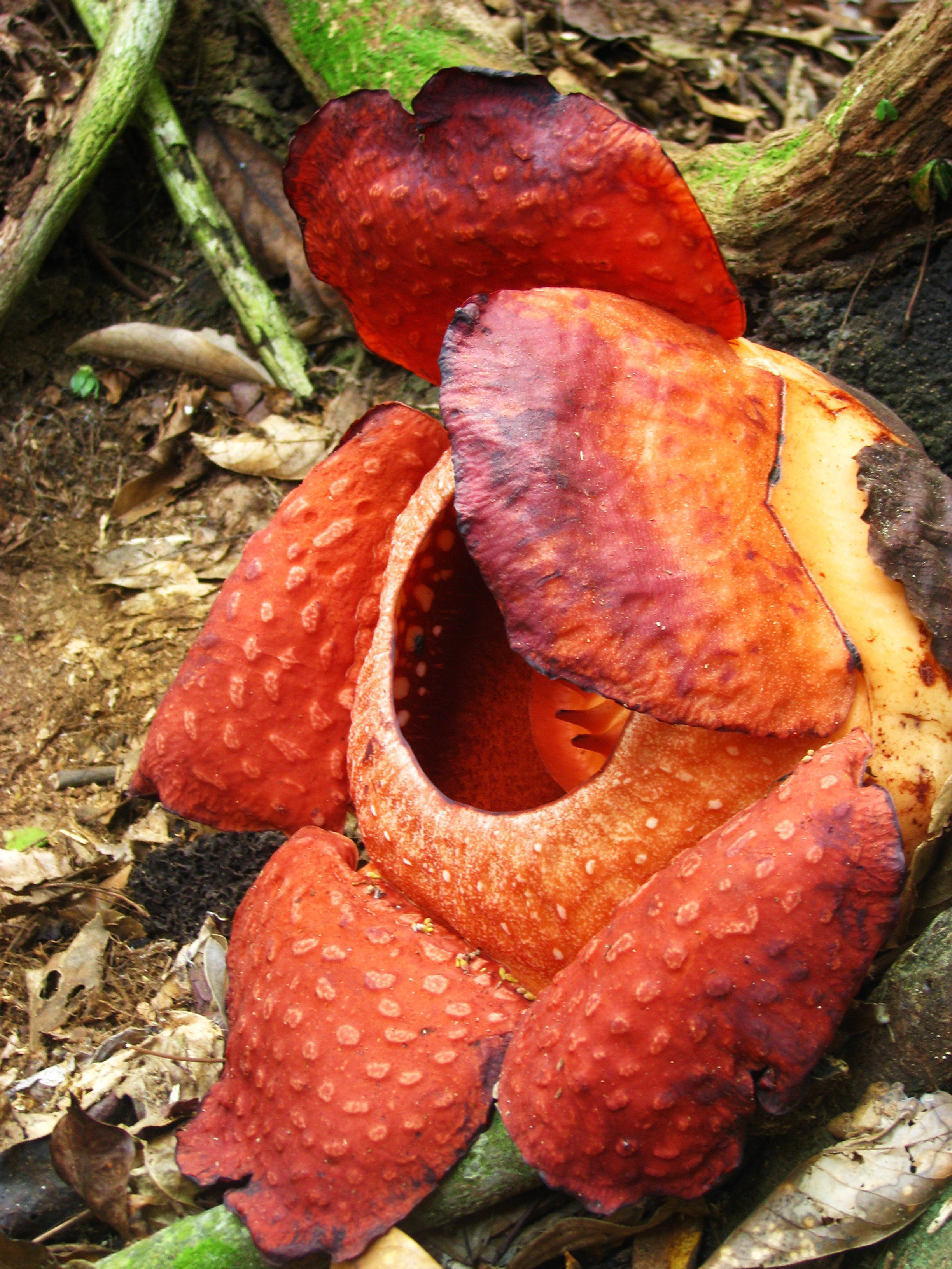 This is the only species growing in Gunung Gading National park, so the species name must be correct